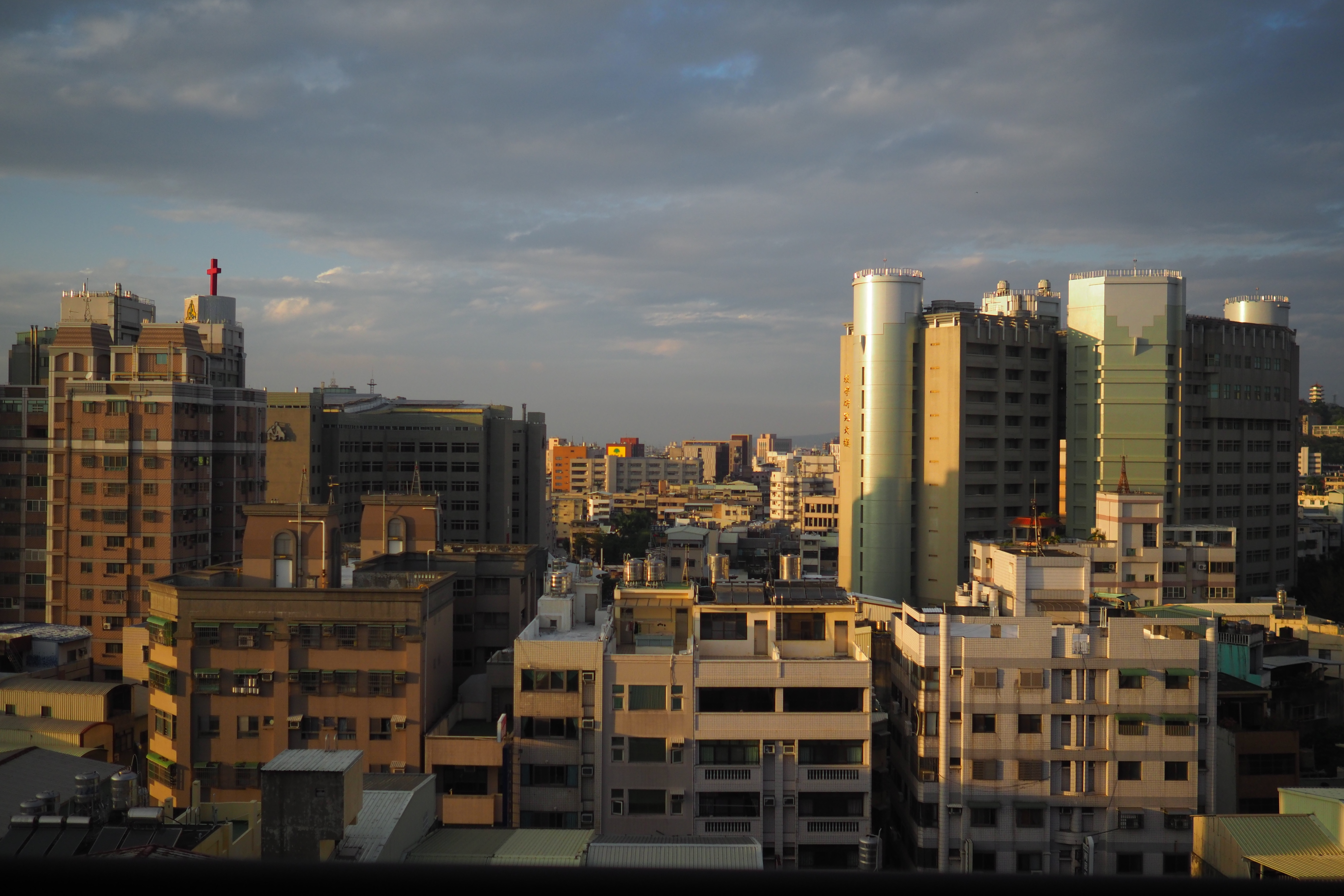 Changhua Christian Hospital in sunset light.